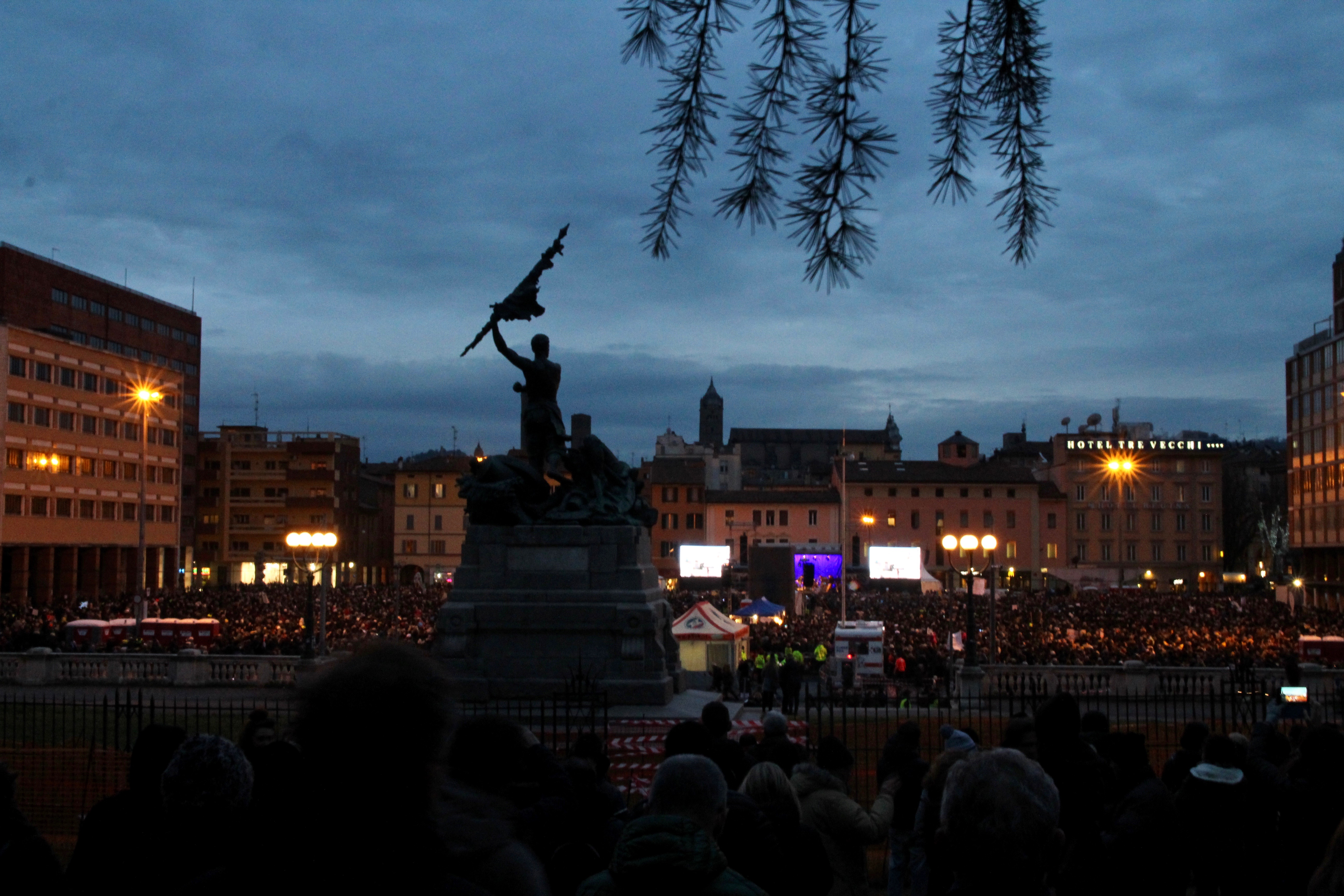 Sardines demonstration in Piazza VIII agosto in Bologna